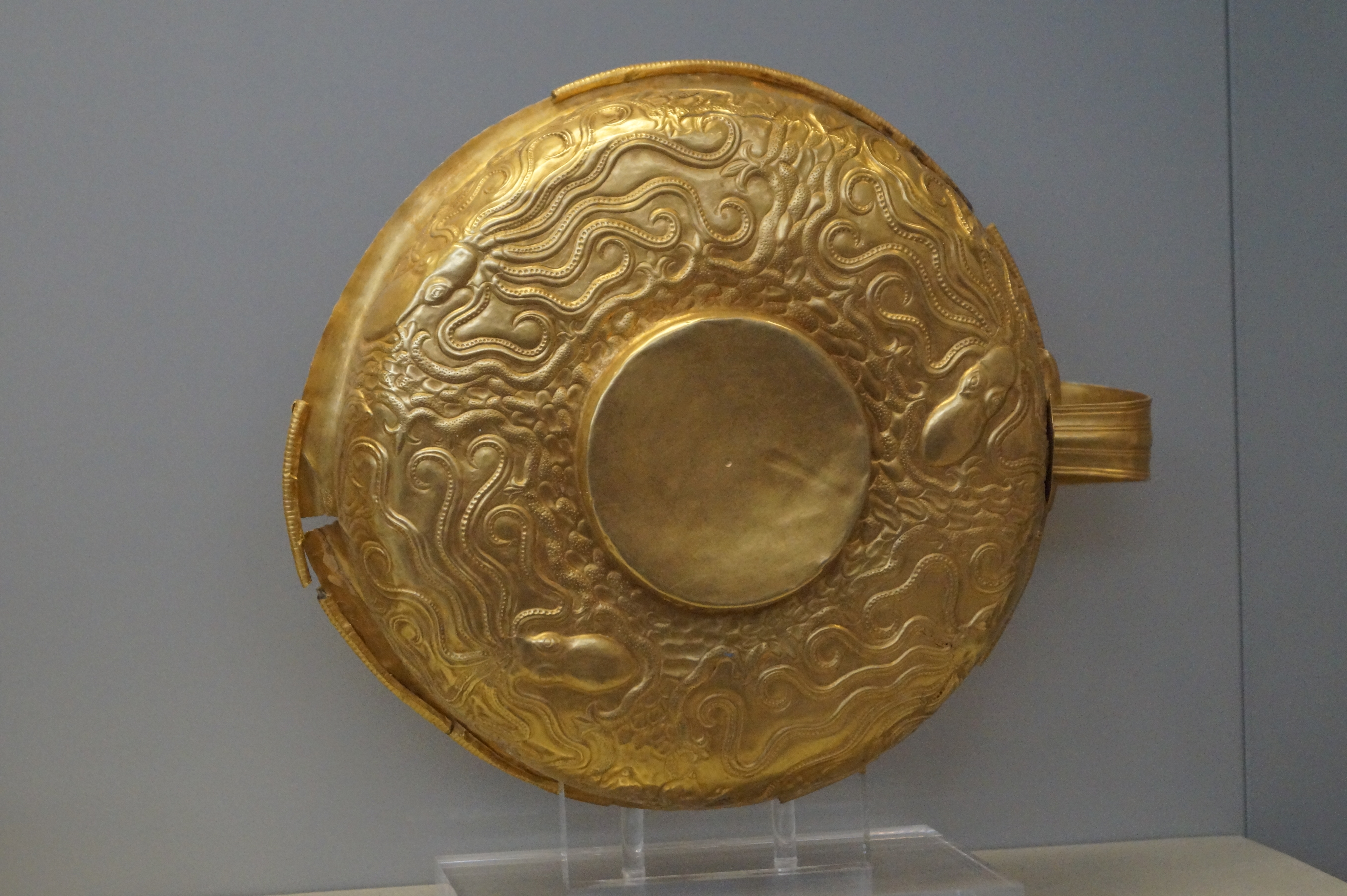 National Archaeological Museum of Athens: Golden cup from tholos tomb at Dendra (NAMA 7341).